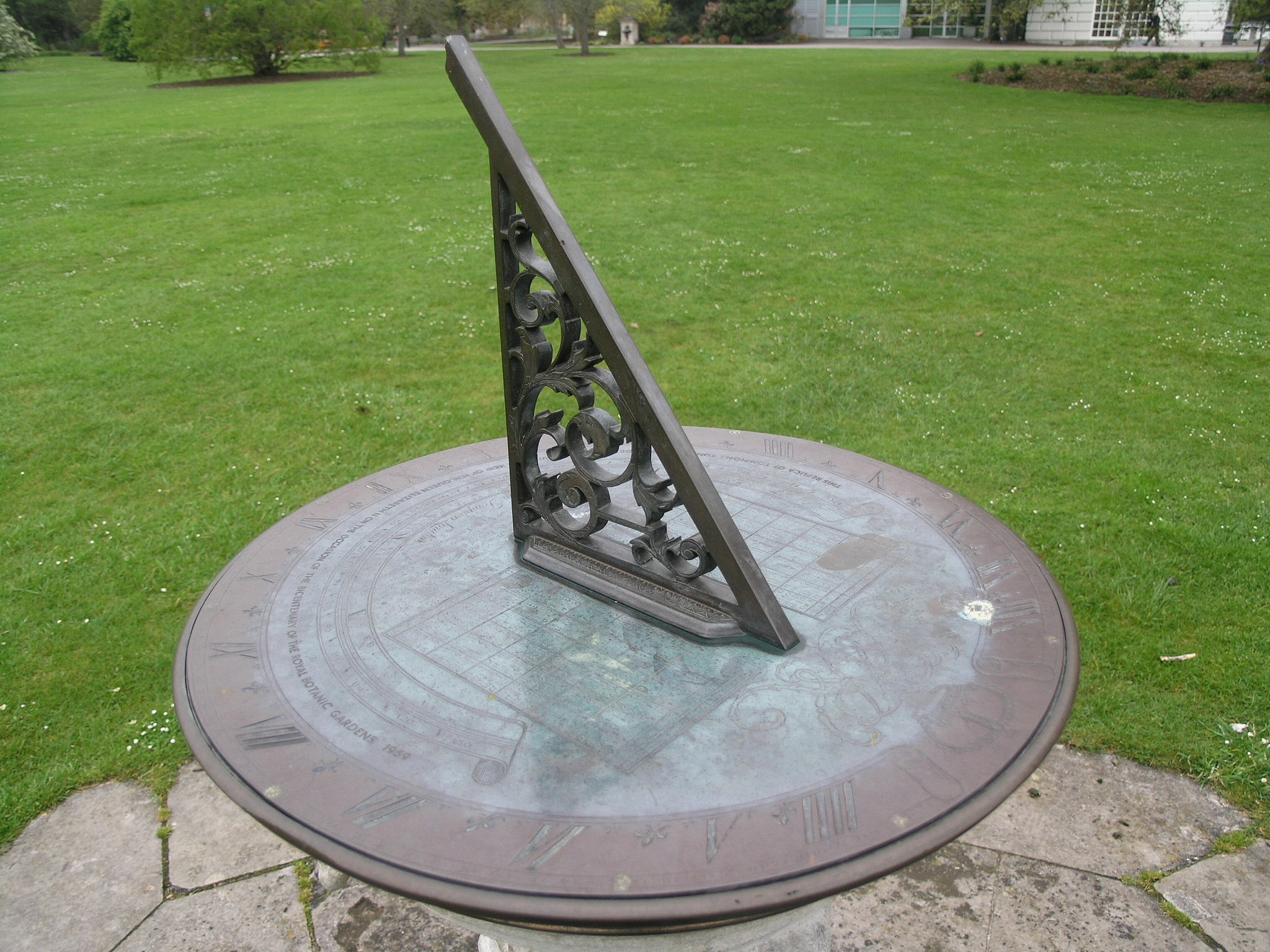 Sundial in Kew Gardens, London